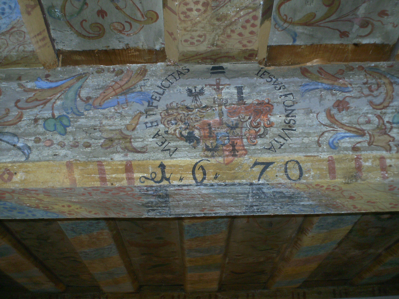 Painted old wooden ceiling at "Farof" vicarage, Slovenske Konjice, from 1670, detail